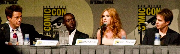 The cast of Iron Man 2 (Robert Downey Jr, Don Cheadle, Scarlett Johansson, Sam Rockwell) at Comic Con 2009 Original publication: At Comic Con 2009 using a Canon EOS Digital Rebel XT.